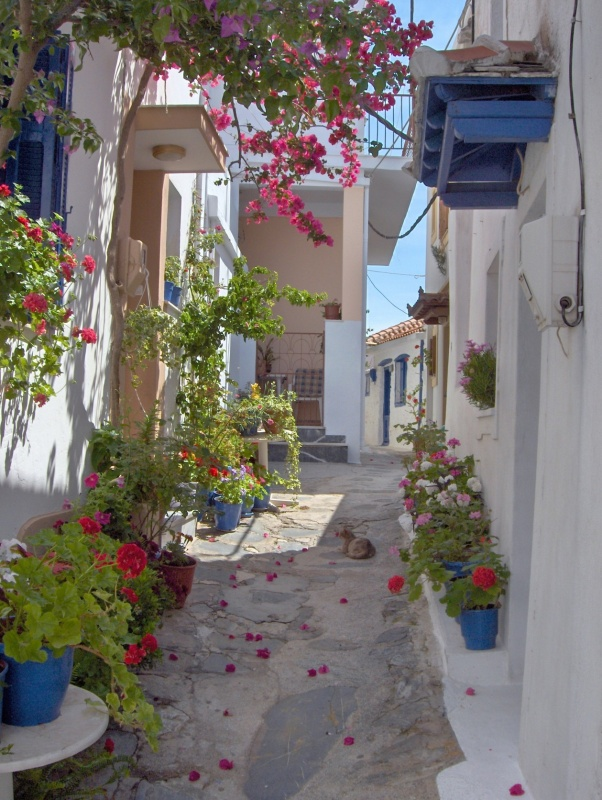 The main town of the Greek island Skopelos has whitewashed buildings on narrow lanes similar to towns in the Cyclades.